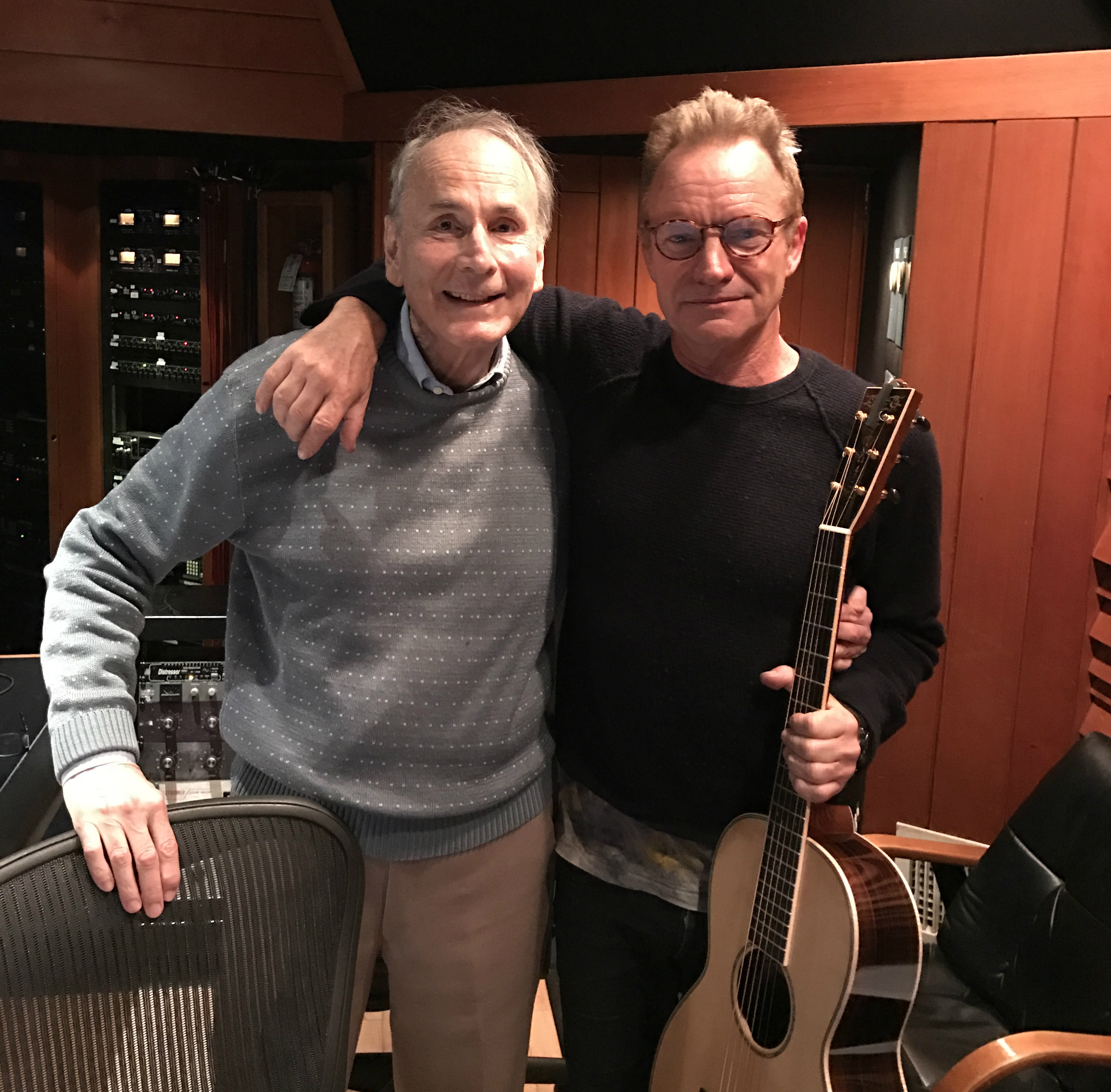 Stanley Silverman with Sting after recording Fear No More